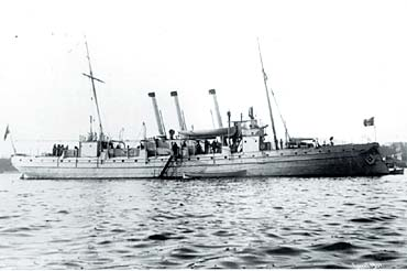 The Norwegian 1. class gunship Sleipner, after her rebuild in 1900 (removal of masts and rigging).